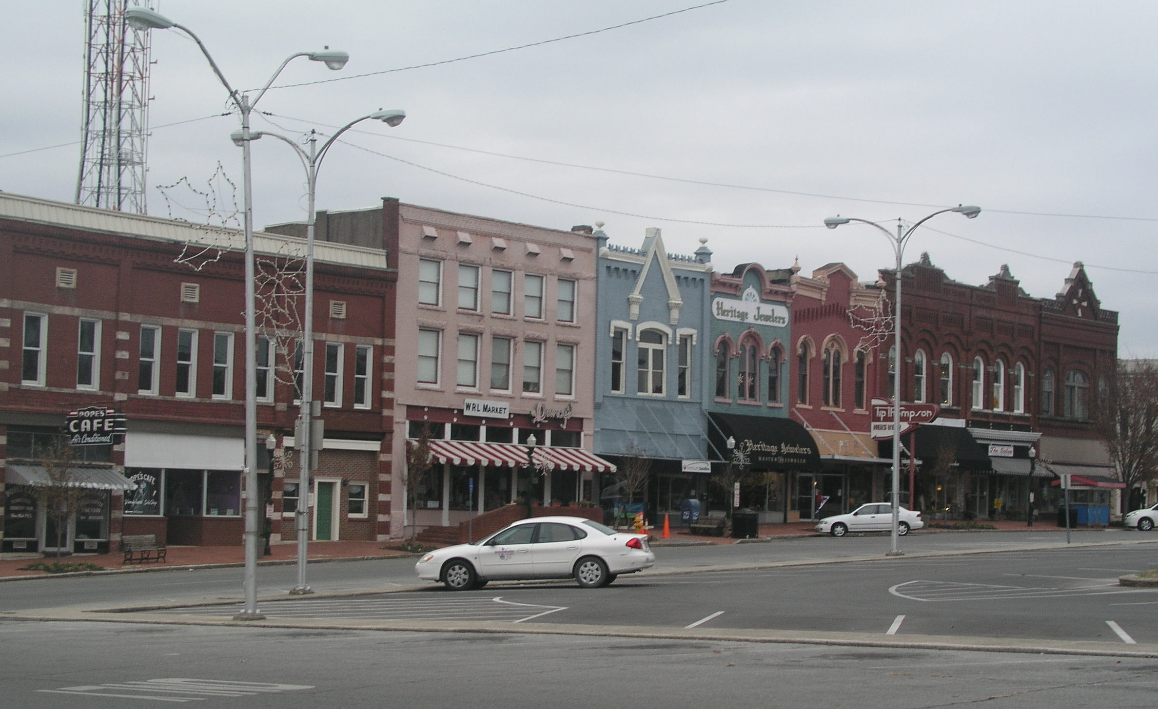 Town square of Shelbyville, Tennessee